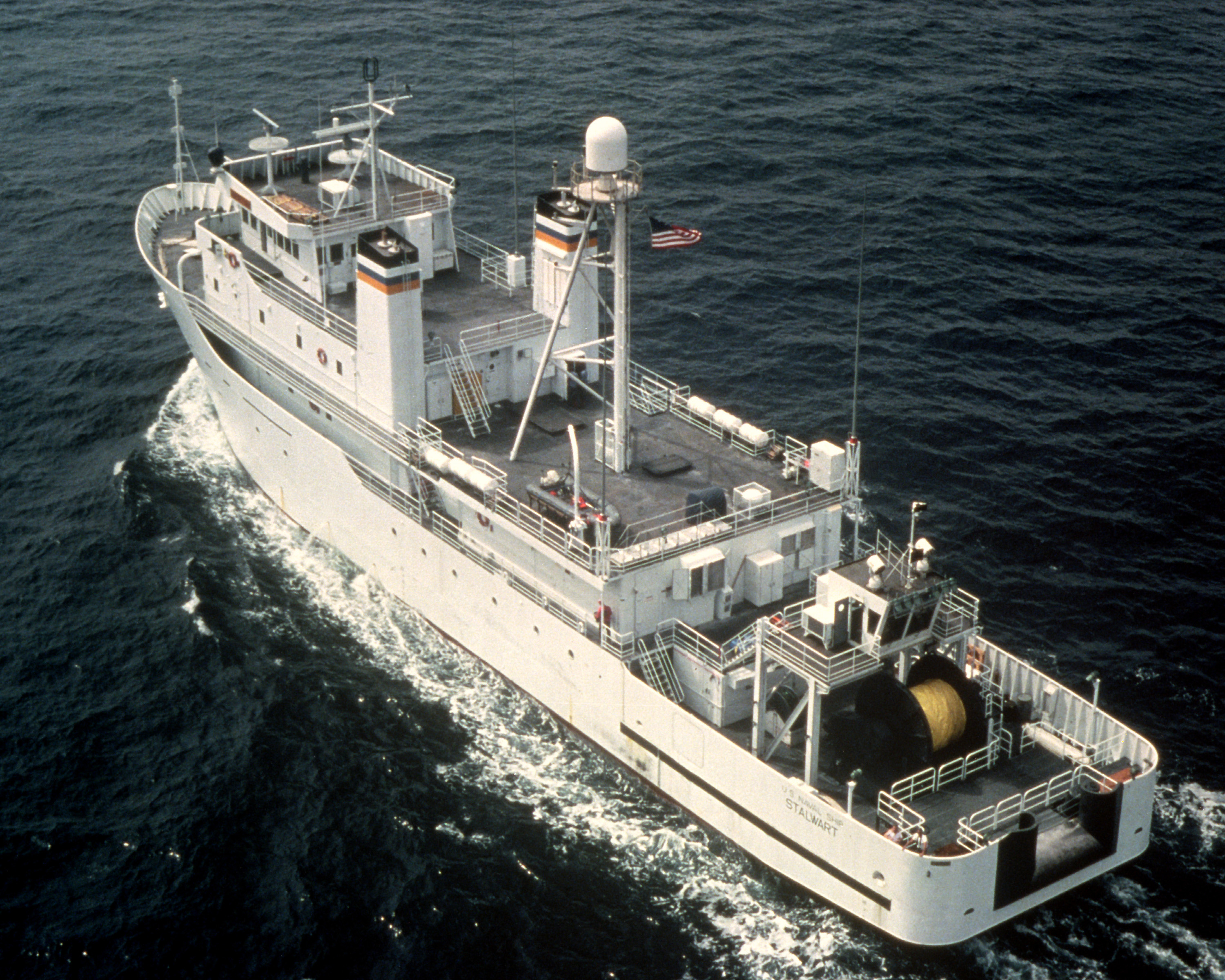 A port quarter view of the ocean surveillance ship USNS STALWART (T-AGOS-1) underway.